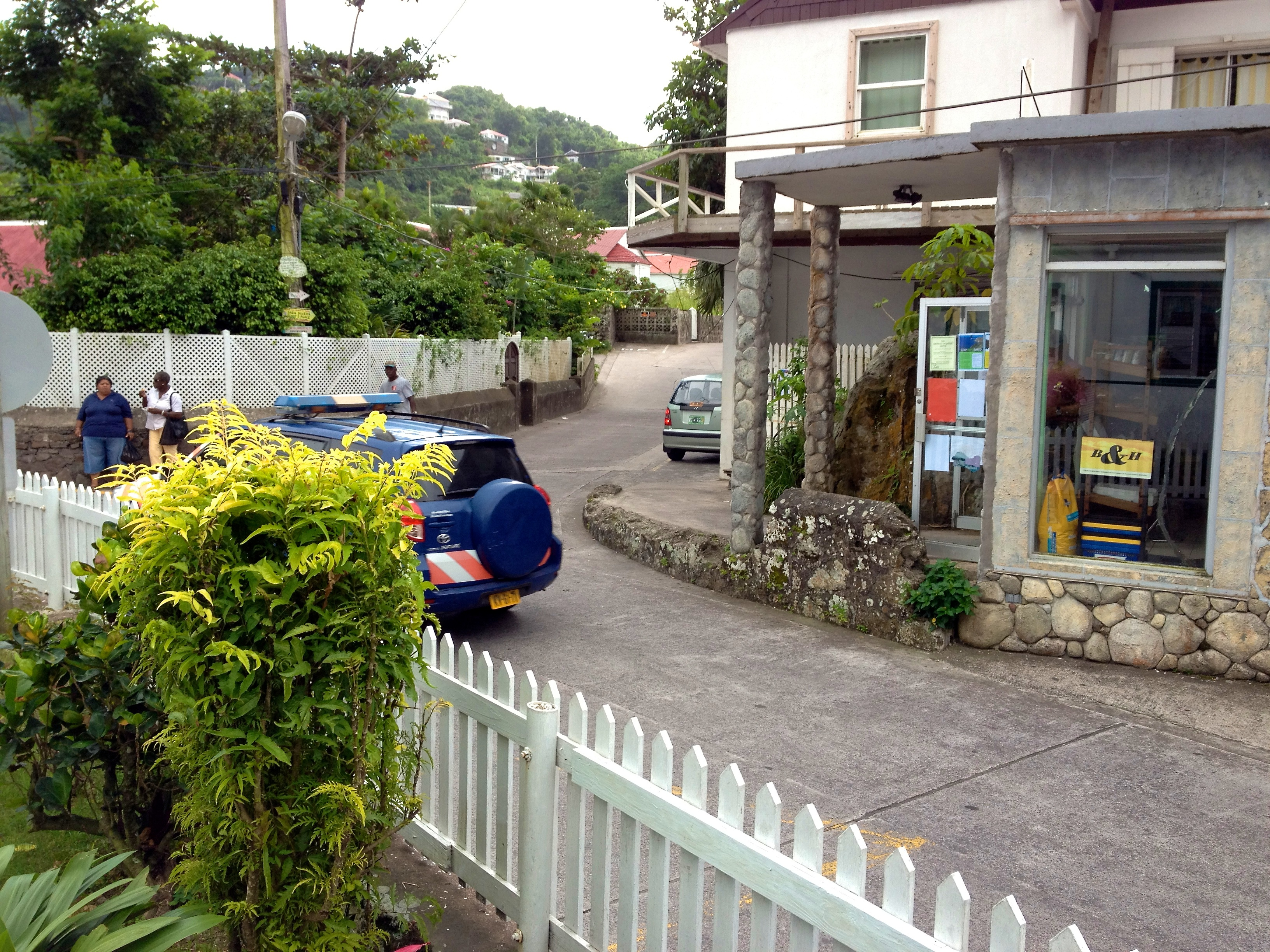 Downtown Windwardside